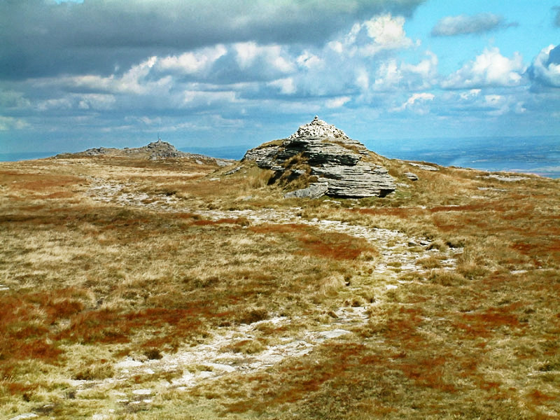 High Willhays, the highest point on Dartmoor and southern England at 621m (2037ft) above sea level, with Yes Tor beyond.